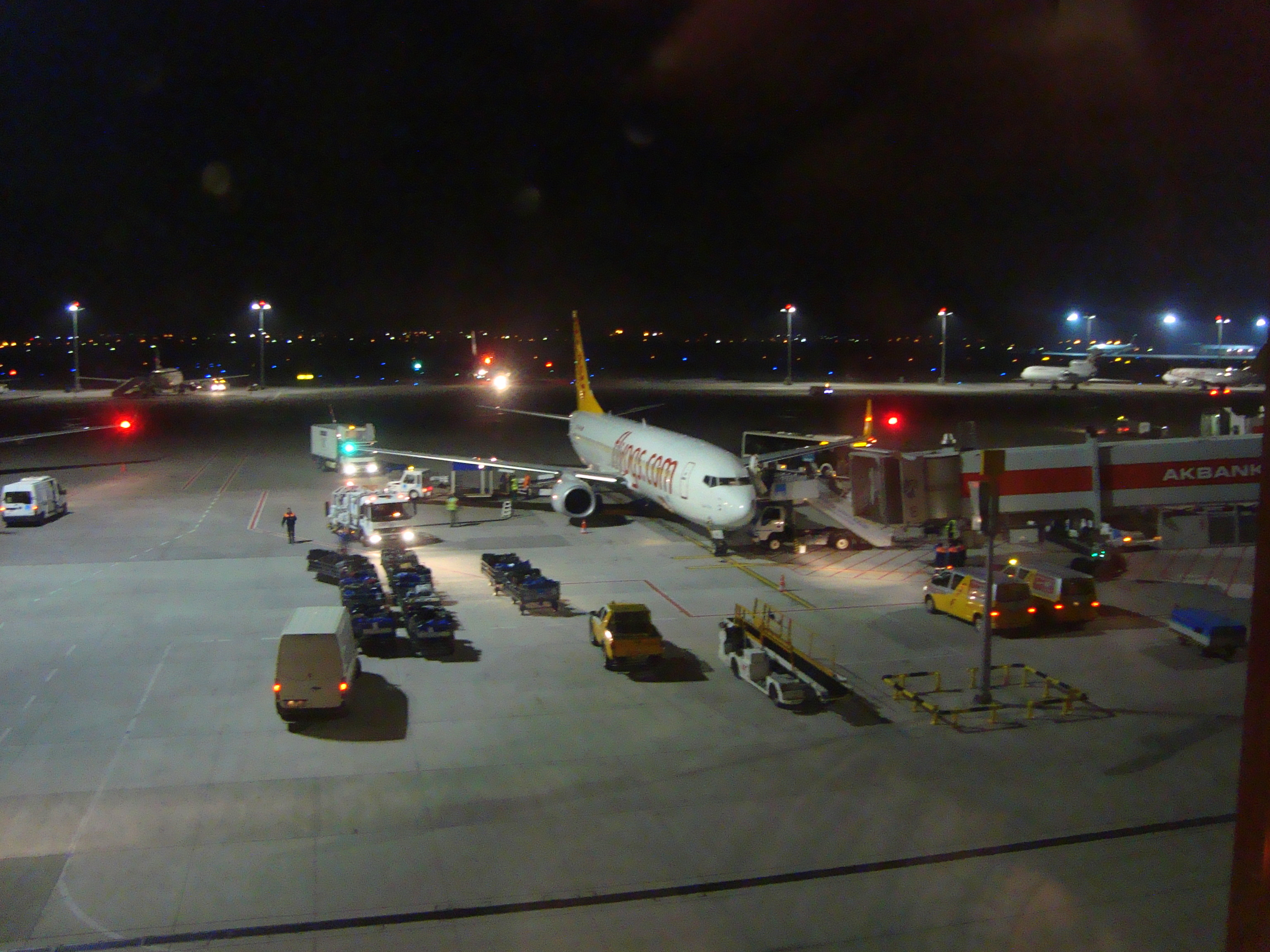 A Pegasus Airlines 737 on stand at Sabiha Gokcen Intl., Instanbul, Turkey